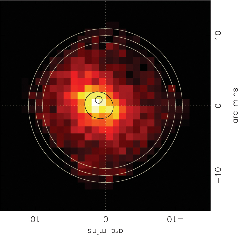 Fragment C of comet Schwassman-Wachmann 3 rentgen